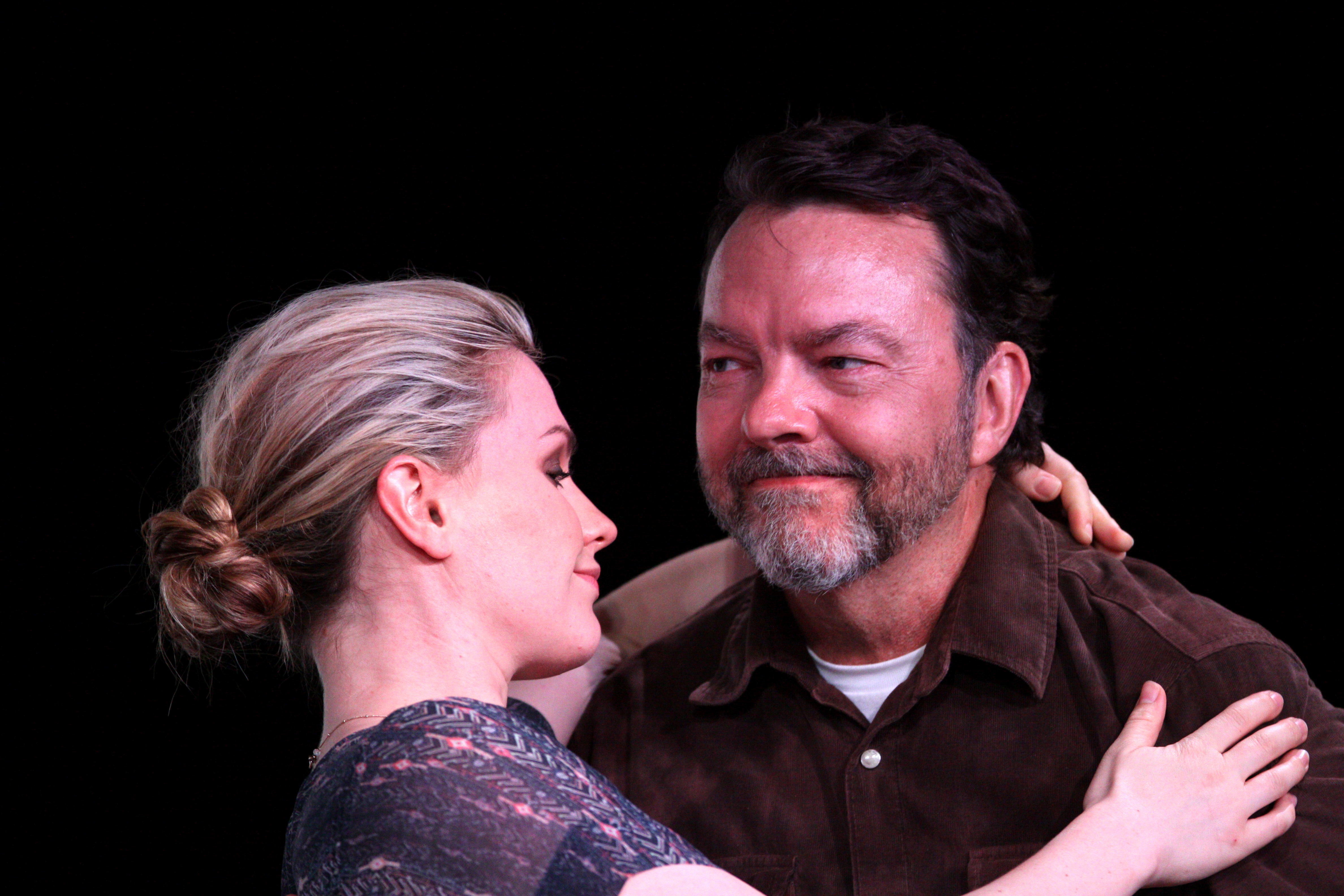 Anna Paquin & Alan Ball speaking at the 2012 San Diego Comic-Con International in San Diego, California.